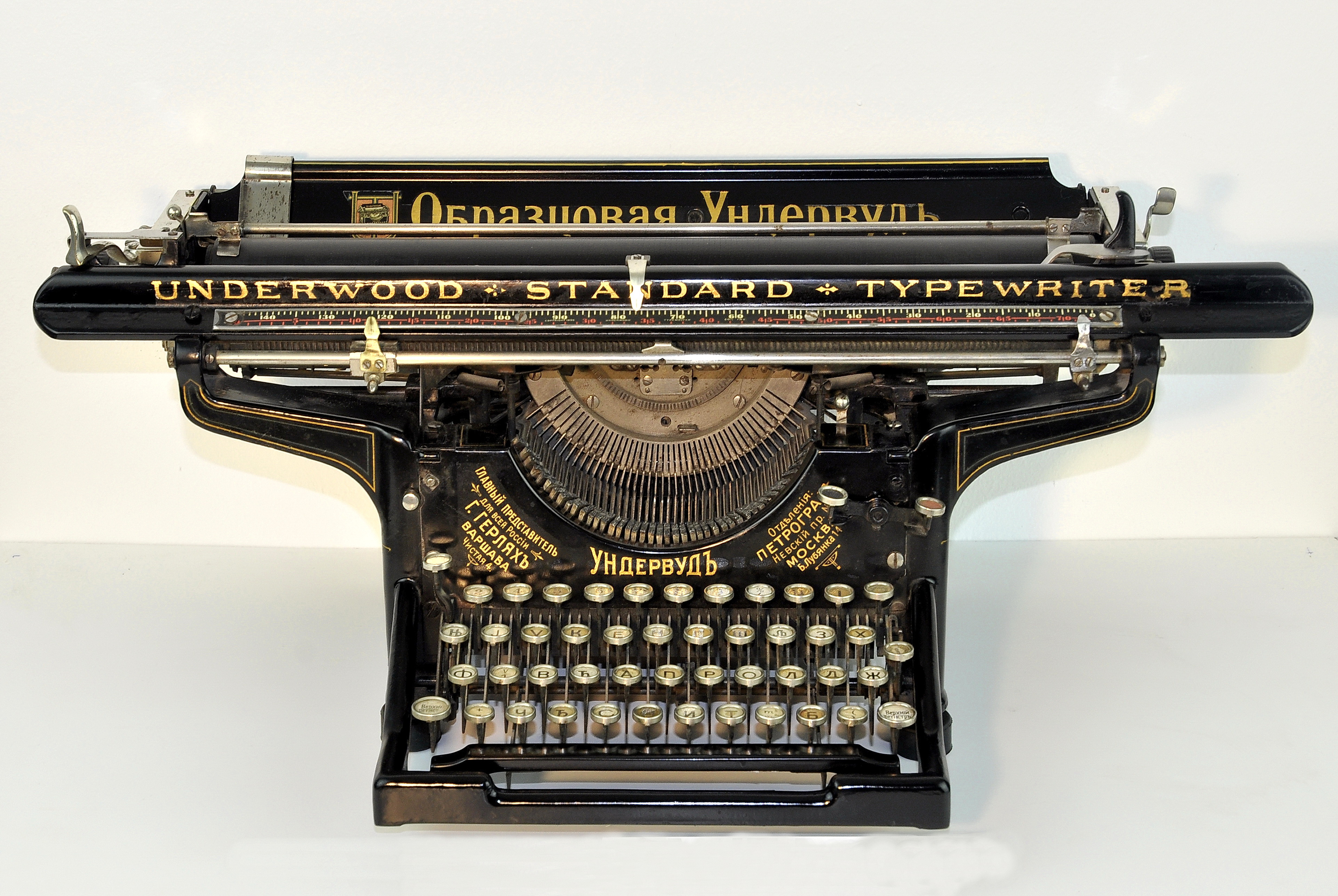 Underwood Standard typewriter with Cyrillic letters. This model can be found in the Museum of Science and Technology Belgrade.